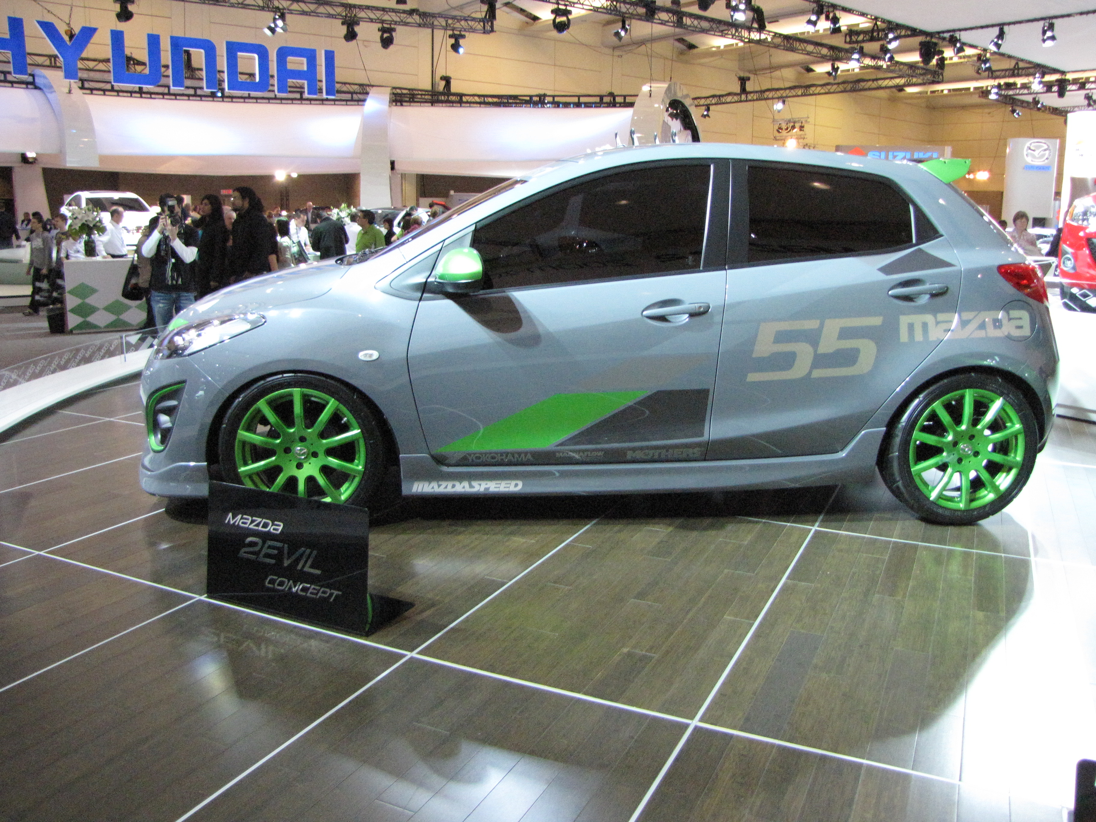 Car Show 200